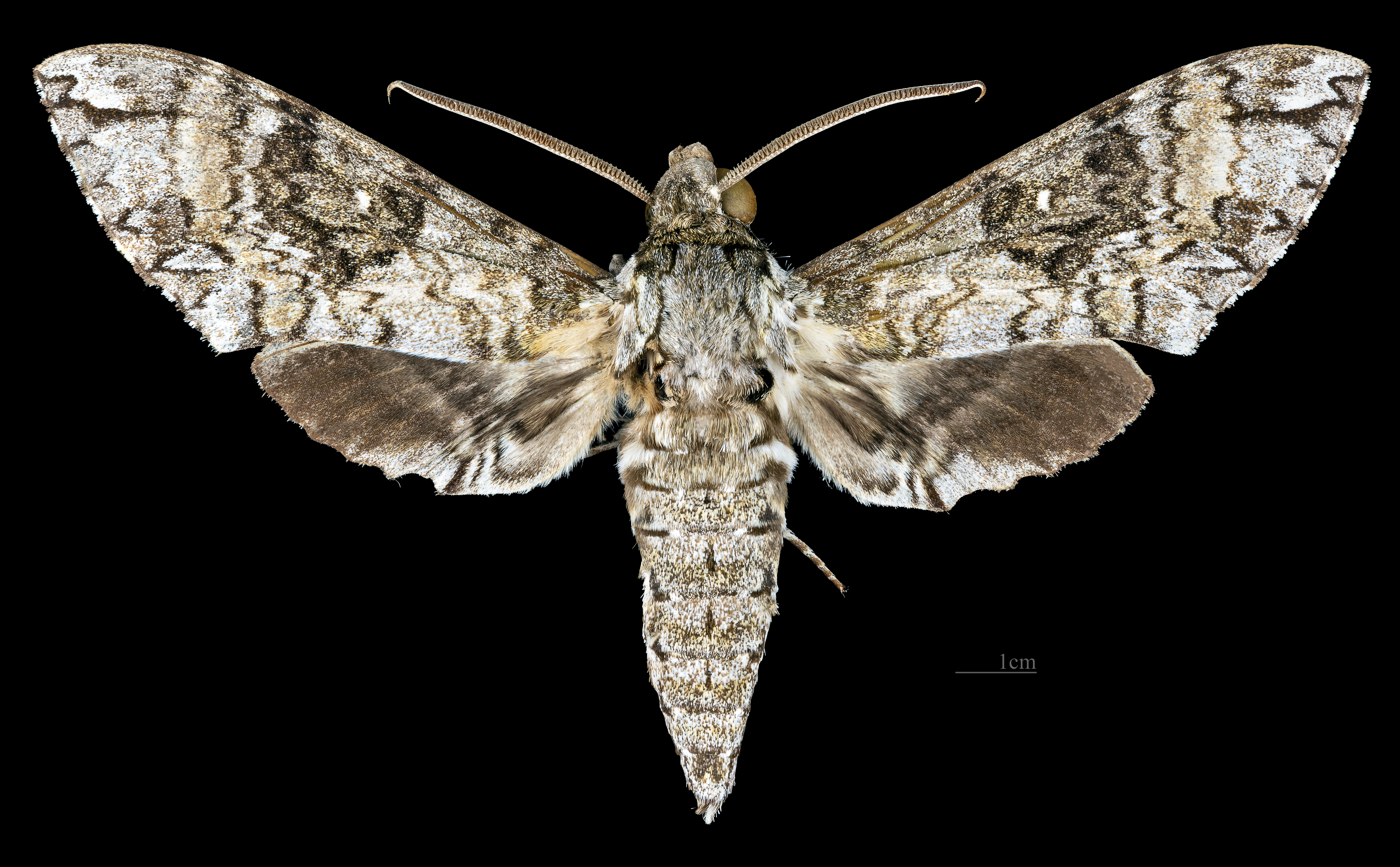 Manduca brontes - Dorsal side Collection of the Mathematician Laurent Schwartz